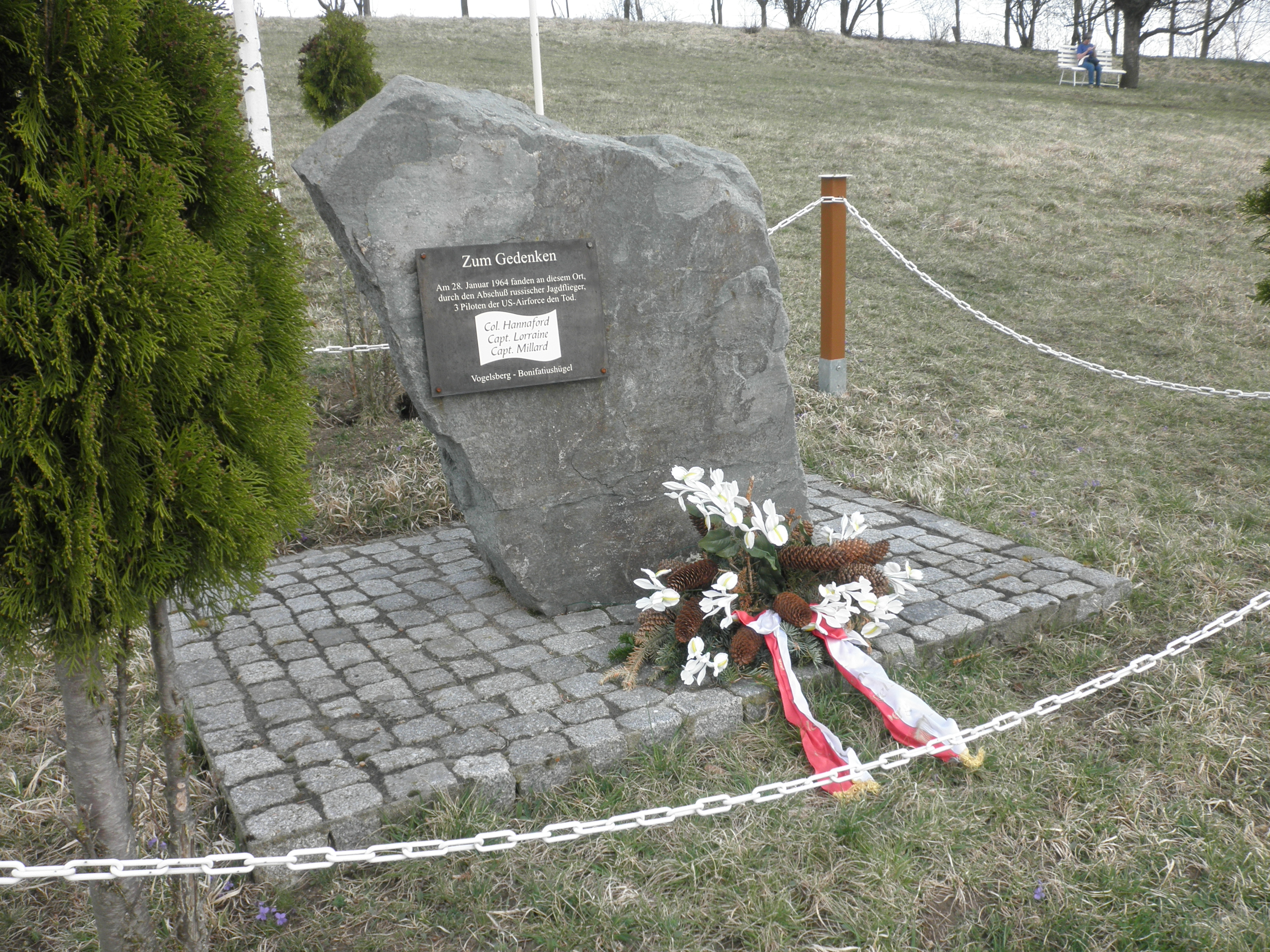 Monument for US-Aircraftmen near Vogelsberg (Thuringia)